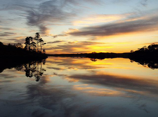 Sunset, Mochrum Loch The small clump of trees just visible to the right of centre are on Scar Island. The name is from the Gaelic sgeir or Scandinavian sker (rock). The name Mochrum is of Scandinavian or possibly Old English origin, and may mean a damp, muggy clearing. ("Place-names of the Wigtownshire Moors and Machars" by Prof John McQueen)